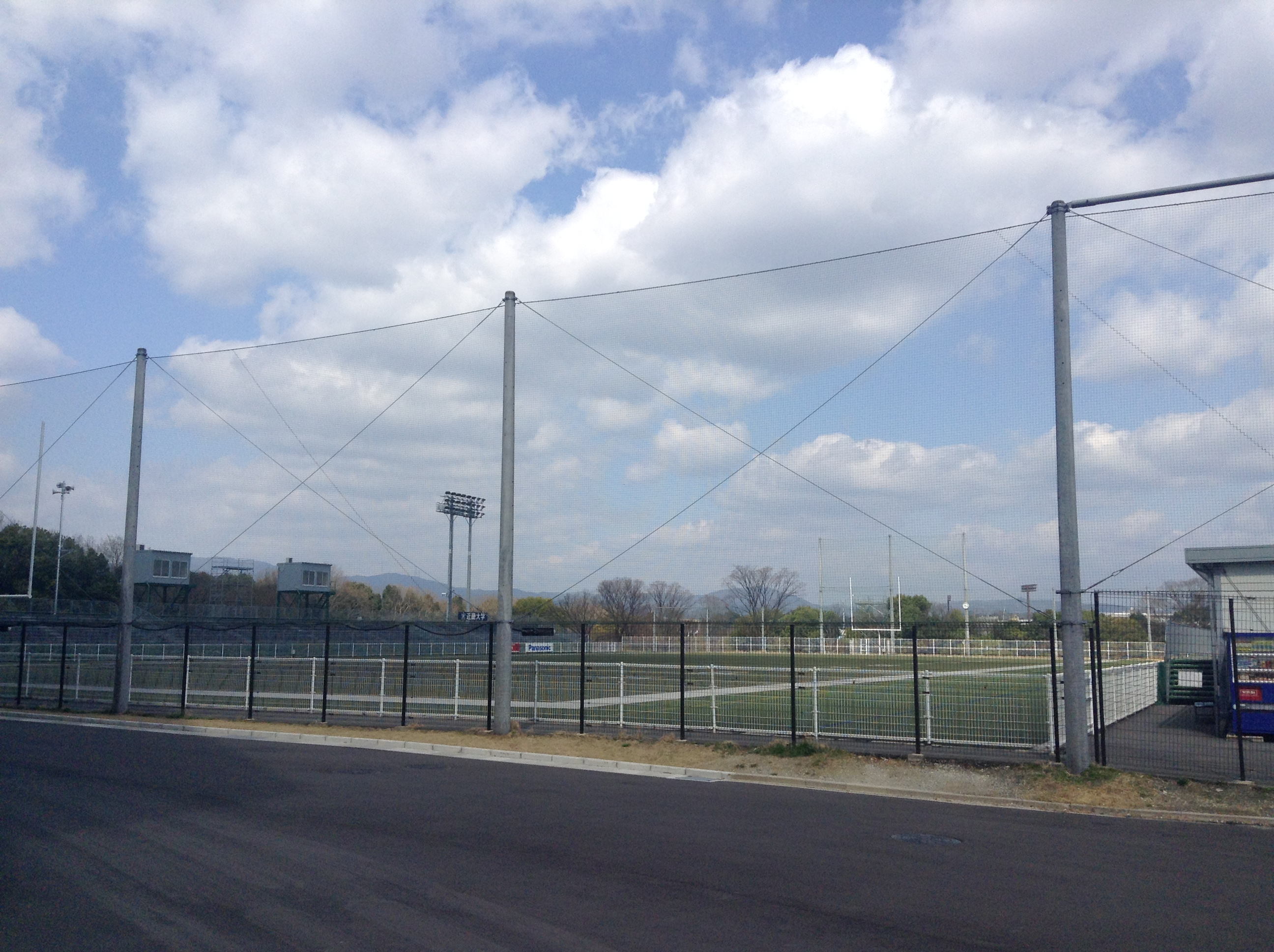 EXPO FLASH FIELD